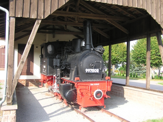 Steam locomotive 997202 (Odenwaldexpress)